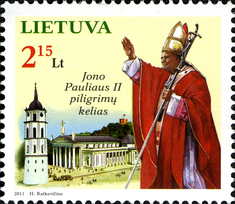 Stamps of Lithuania, 2011